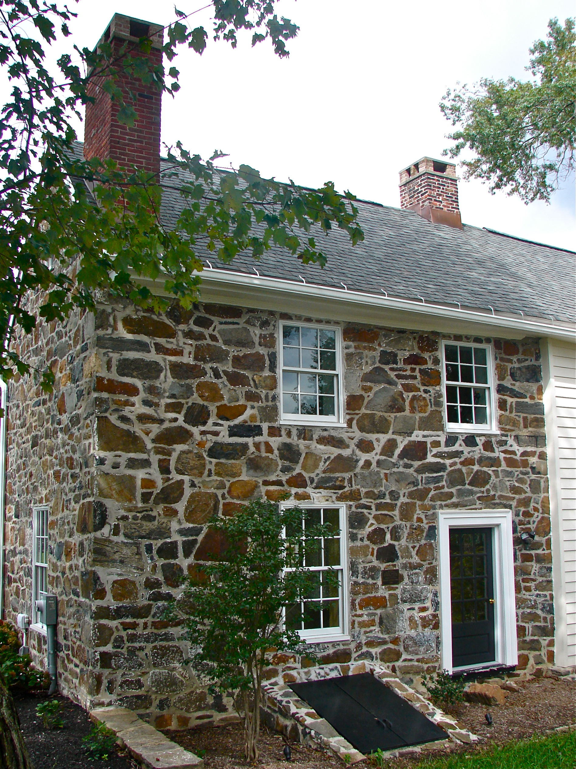 Charles Springer Tavern on the NRHP since September 11, 1992. At 4921 Lancaster Pike, Christiana Hundred, near Wilmington, Delaware.